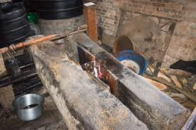 Two wooden beams used for squeezing mustard seed. Traditional method for extracting mustard oil used in Khokana